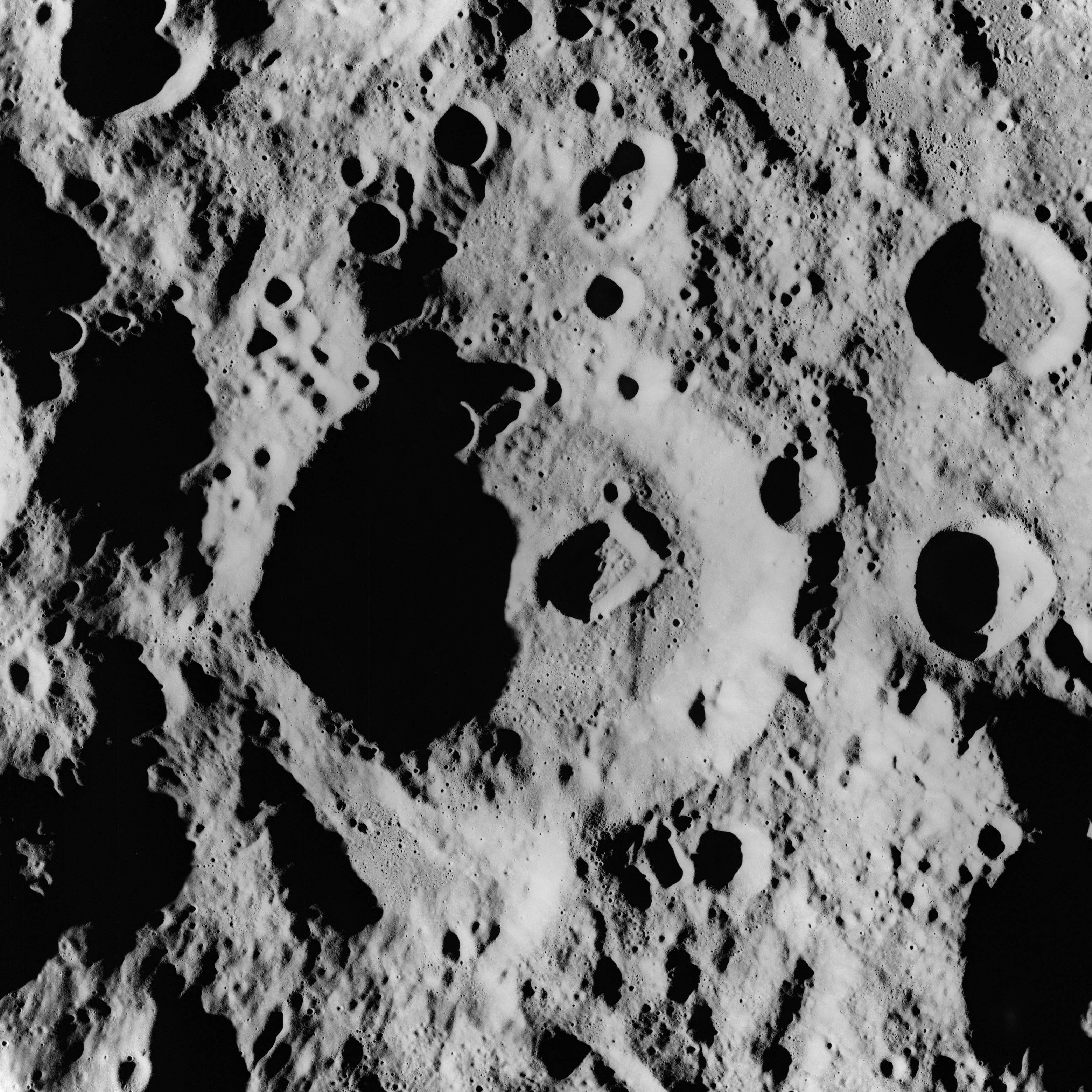 AS15-M-0287 image